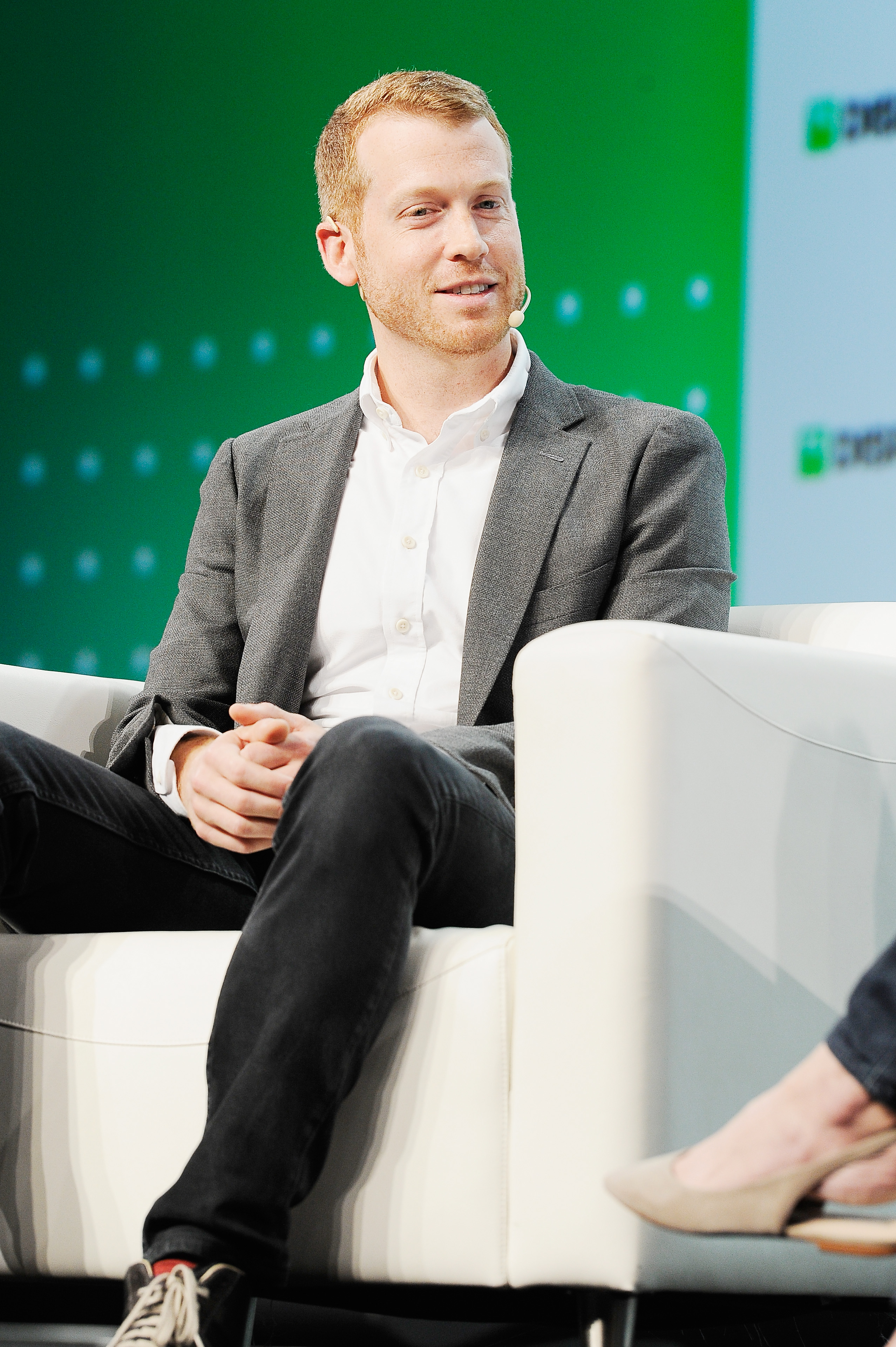 SAN FRANCISCO, CA - SEPTEMBER 06: Cruise CEO Kyle Vogt speaks onstage during Day 2 of TechCrunch Disrupt SF 2018 at Moscone Center on September 6, 2018 in San Francisco, California. (Photo by Steve Jennings/Getty Images for TechCrunch)